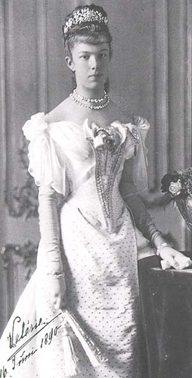 Archduchess Marie Valerie of Austria (1868-1924)